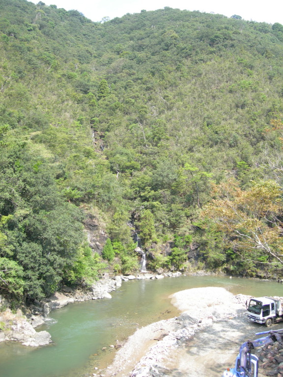 Mt. Shimaji-yama in Mie Prf. Japan.